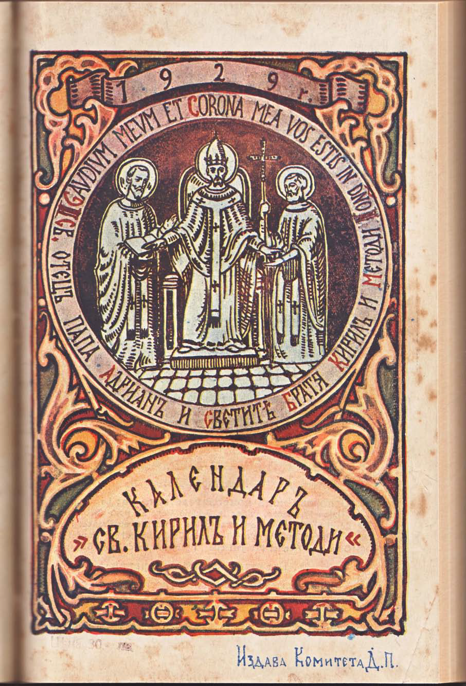 Catholic Calendar Almanah for 1929